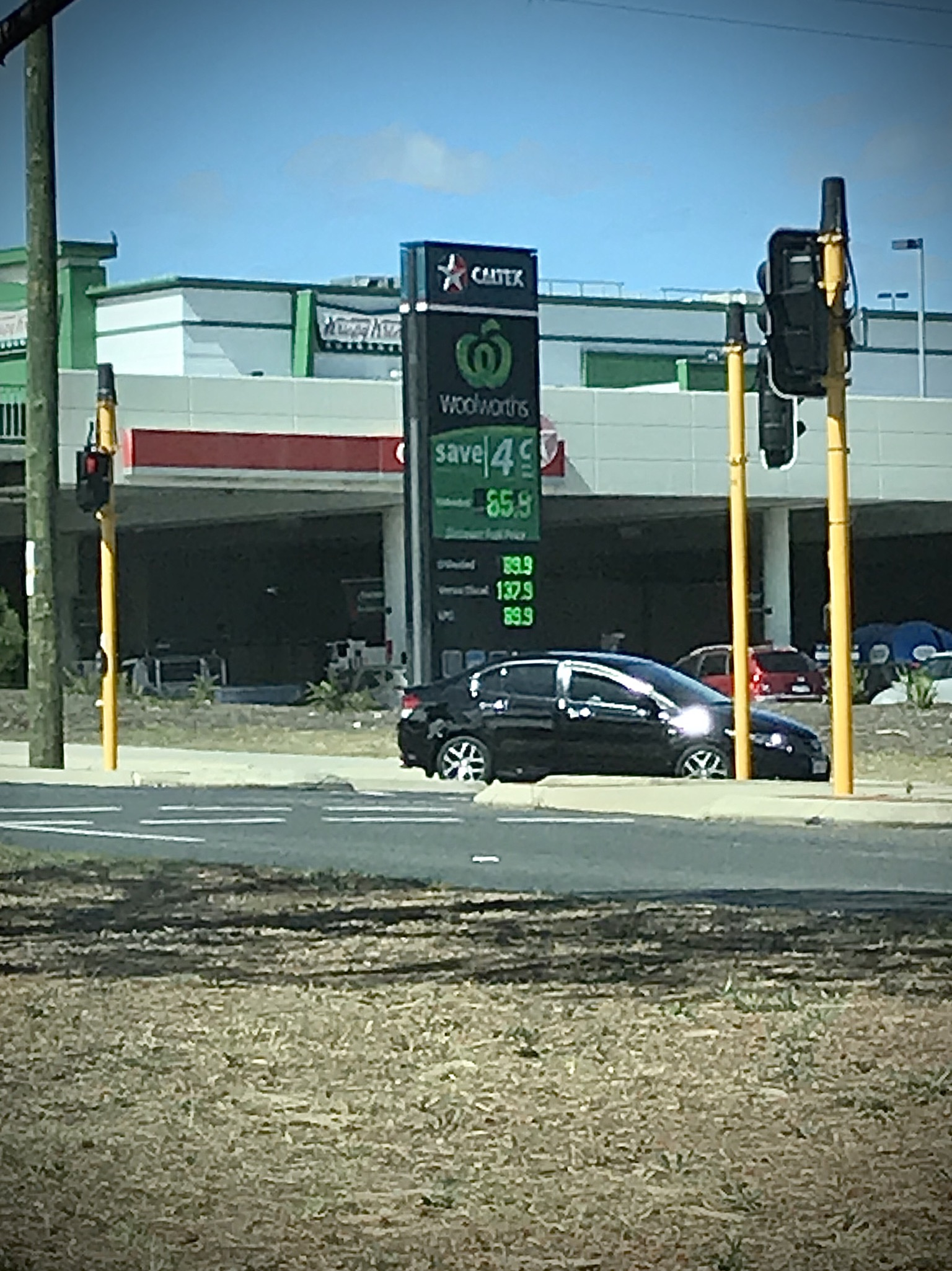 Caltex Woolworths Petrol Station Sign showing Discount Unleaded at 85.9c (AUD) per litre during April 2020 when a combination of low demand due to coronavirus restrictions and over supply led to Australian ULP fuel prices dropping below $1.00 for the first time in years.